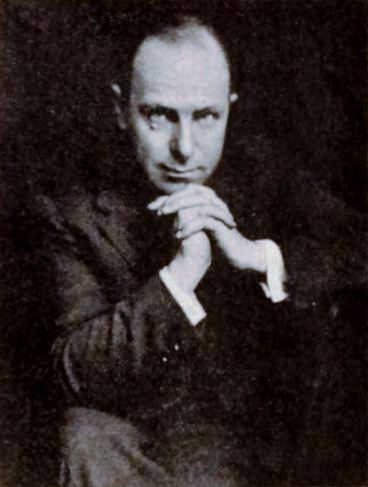 Illustrator Tony Sarg, on page 77 of the September 17, 1921 Exhibitors Herald.